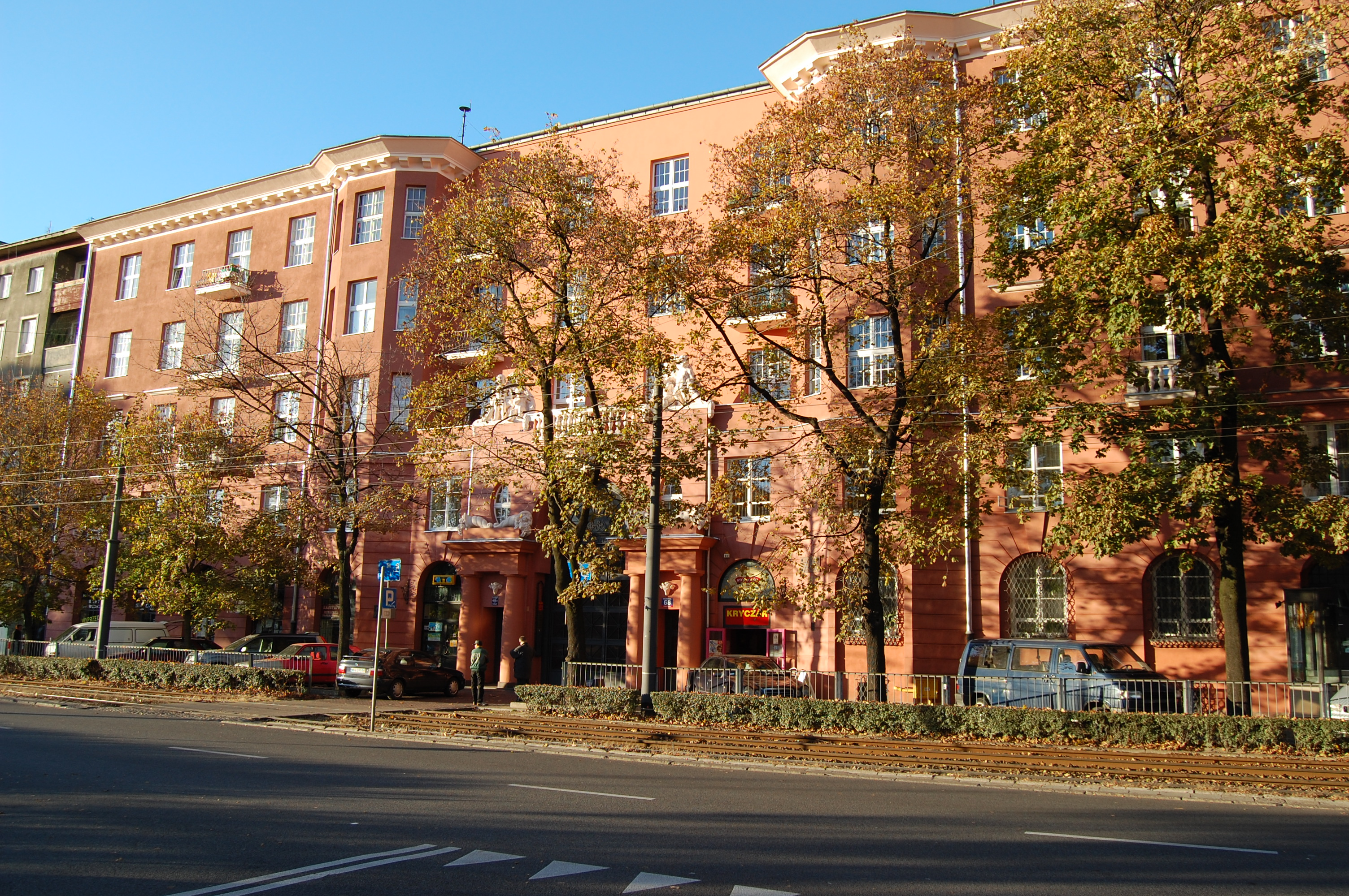 House at Filtrowa Street in Warsaw, Poland